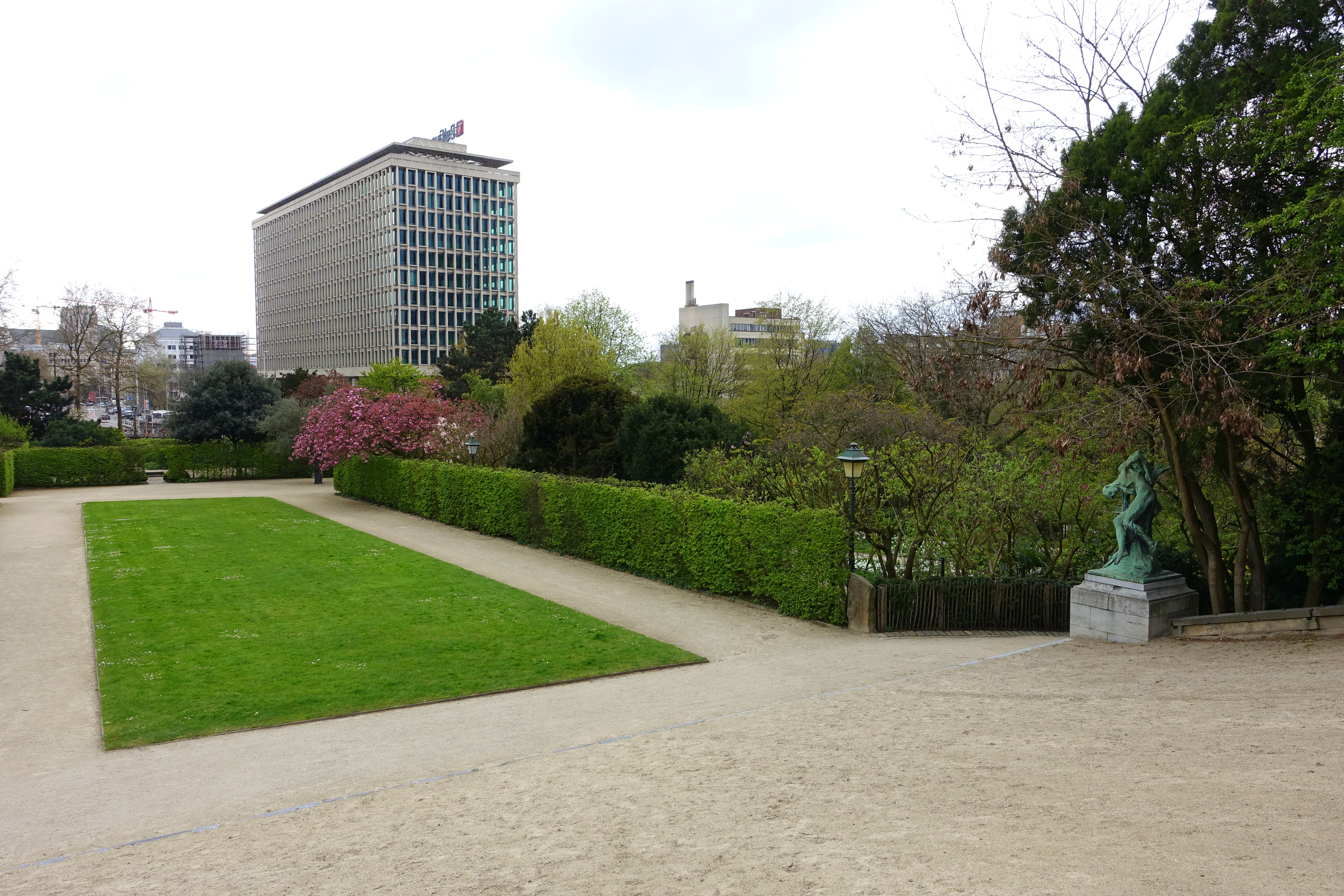 Botanical Garden of Brussels - Brussels, Belgium.